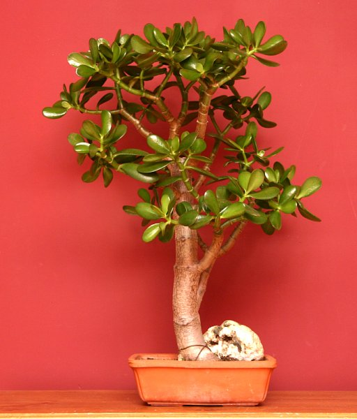 Crassula ovata presented as an indoor bonsai. After doing fine for three years, the plant fell victim of a cool, wet summer and rotted away.